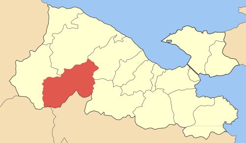 Locator map of Stymfalias municipality (Δήμος Στυμφαλίας) at Korinthias perfecture, Greece.